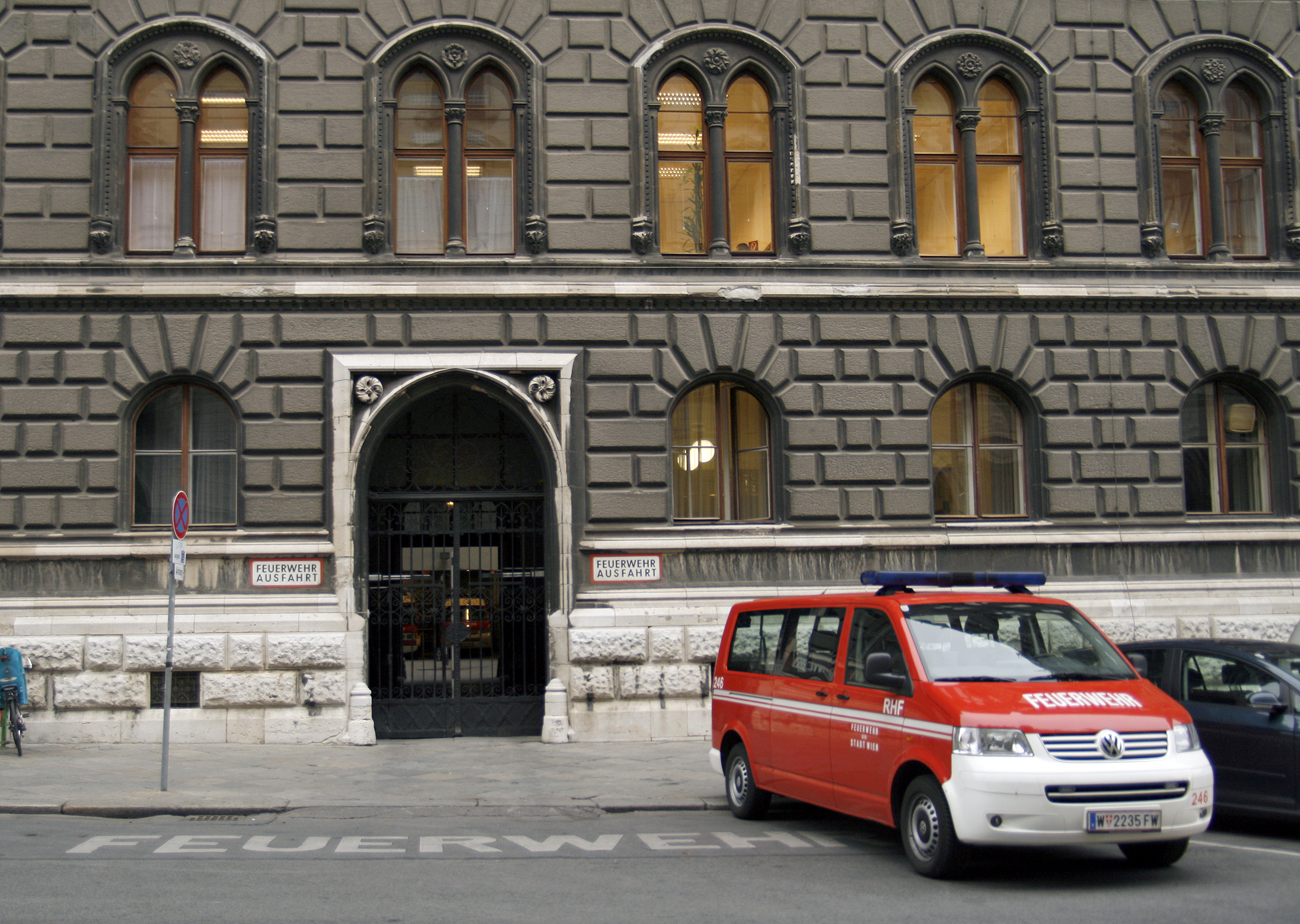 Fire station at the Rathaus, Vienna.